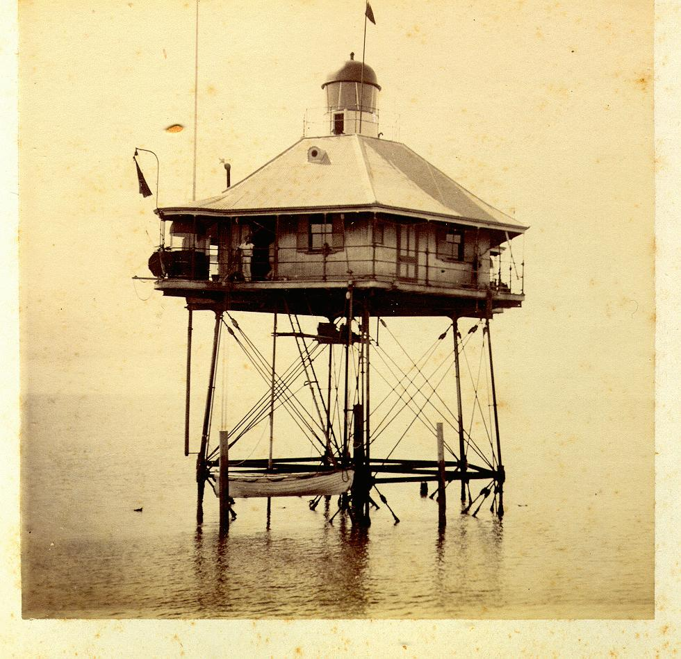 Morton Bay Pile Light, Queensland